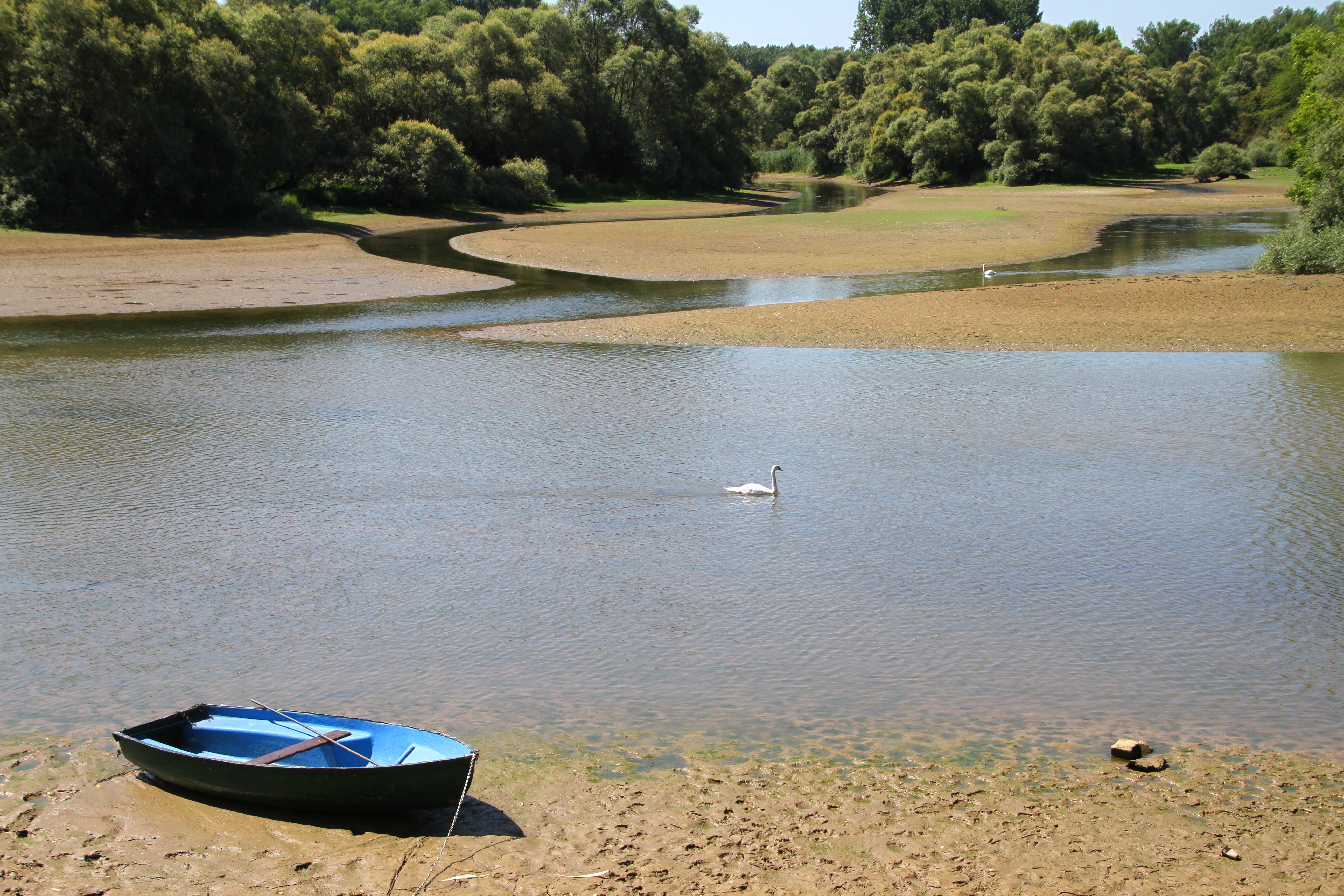 Delta of the Sauer near Munchhausen.